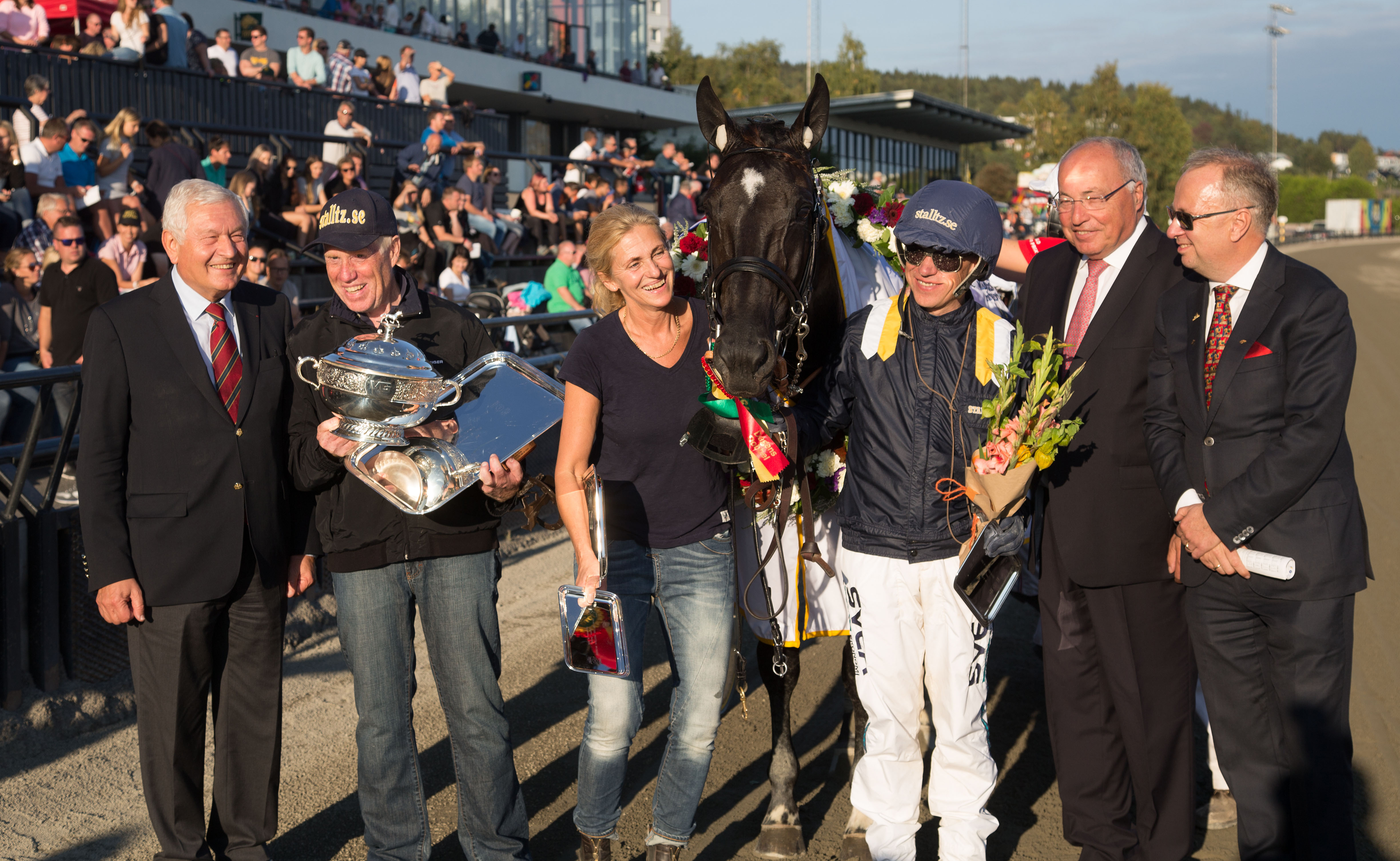 Nuncio after winning UET Trotting Masters final 2016-09-18.